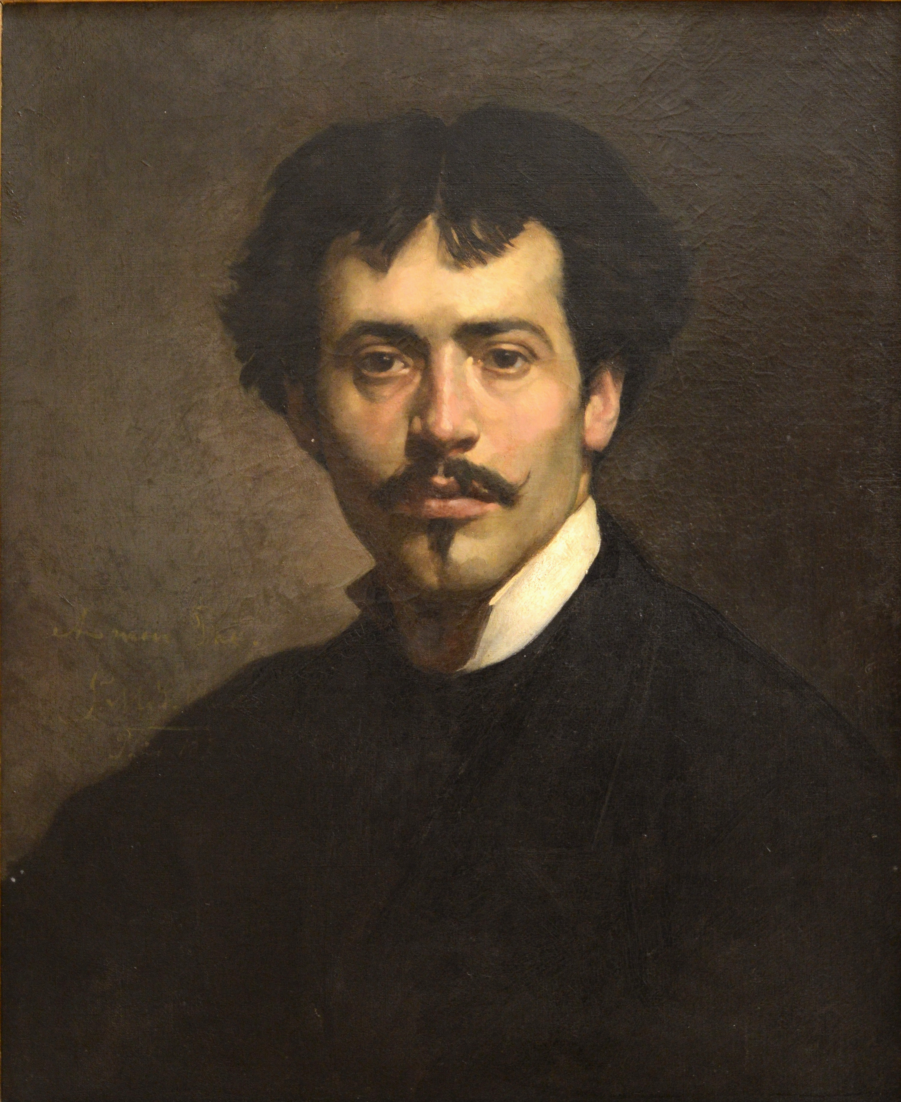 Self portrait of Marques Oliveira. Museum José Malhos, Caldas da Rainha, Portugal